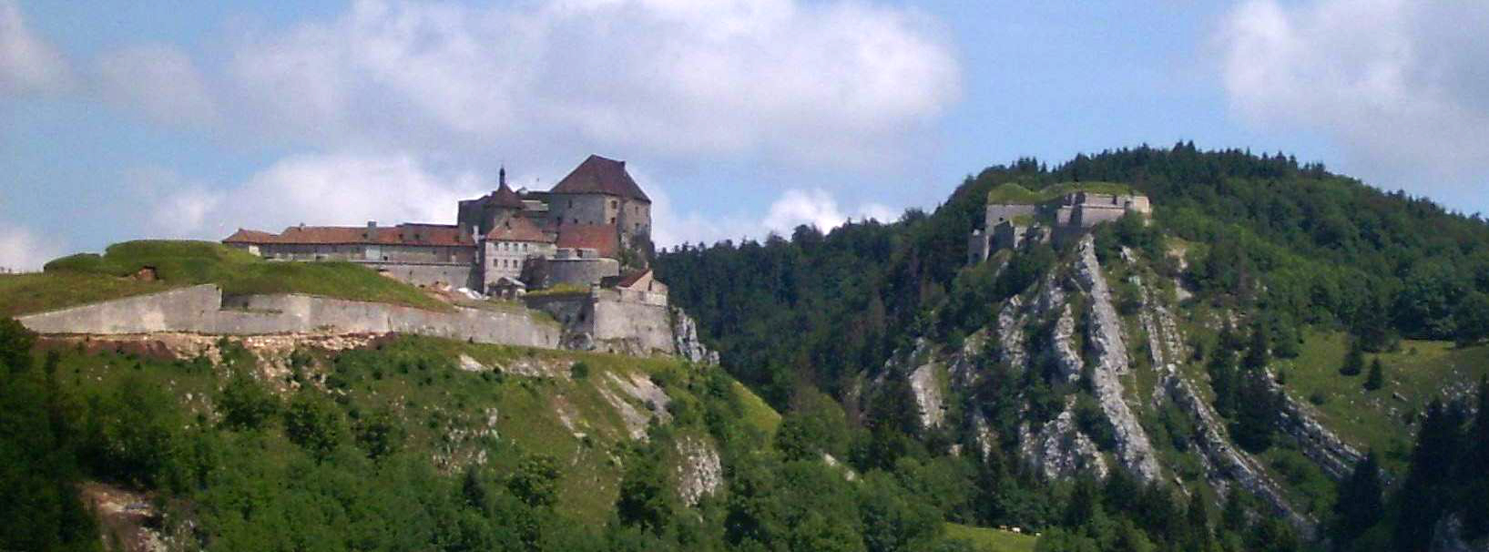 Picture of Fort de Joux overlooking the mountain pass "Cluse de Pontarlier" Taken on Bastille Day (July 14) 2004